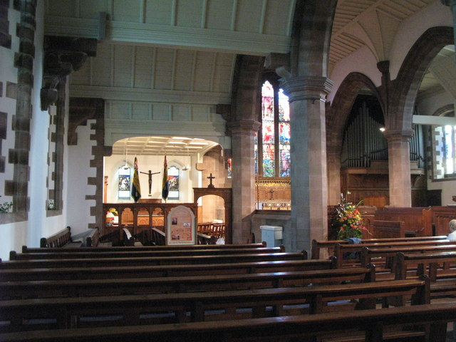 St. Martin's Church - interior (3). See 1582099.